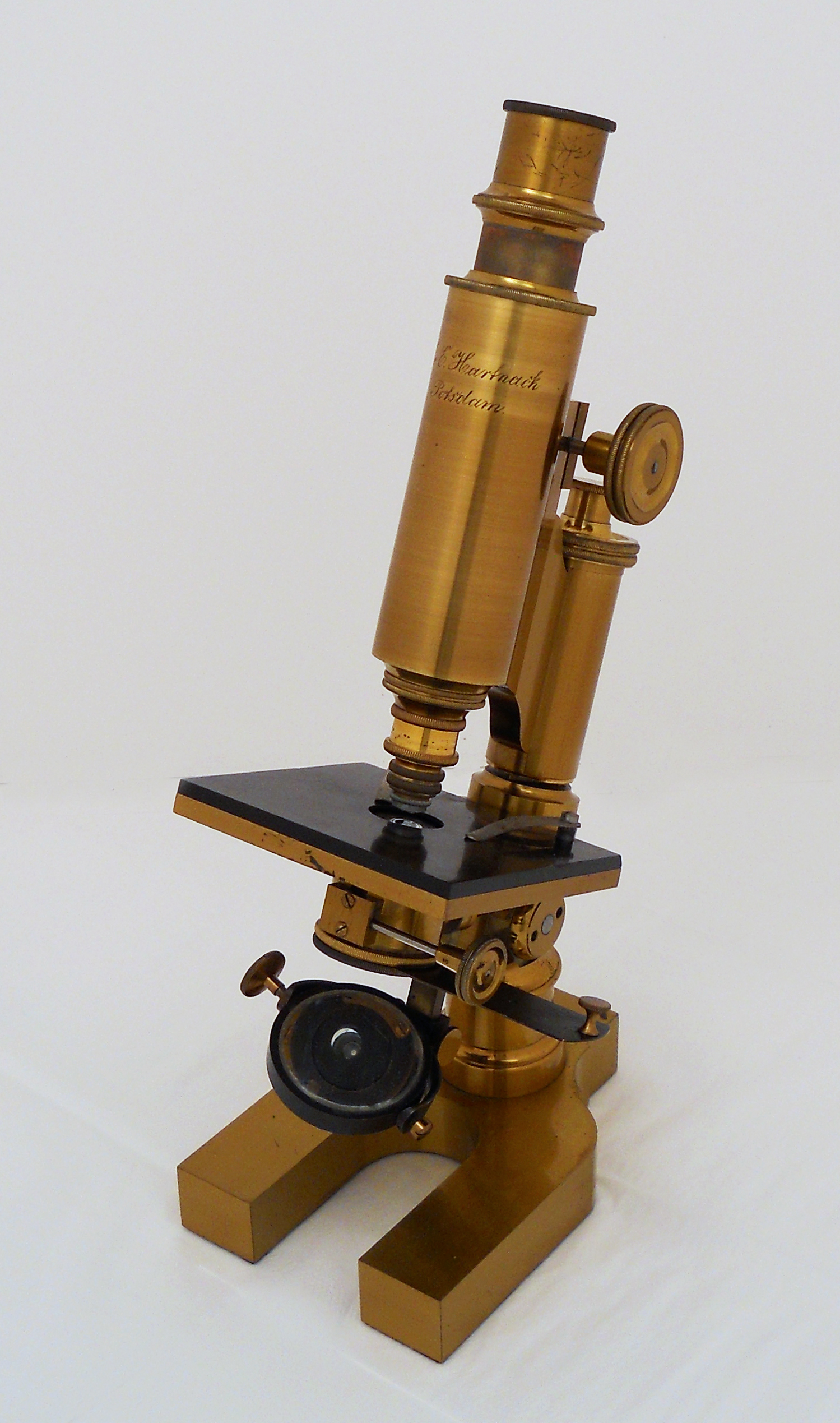 Horseshoe foot microscope by Hartnack 1886